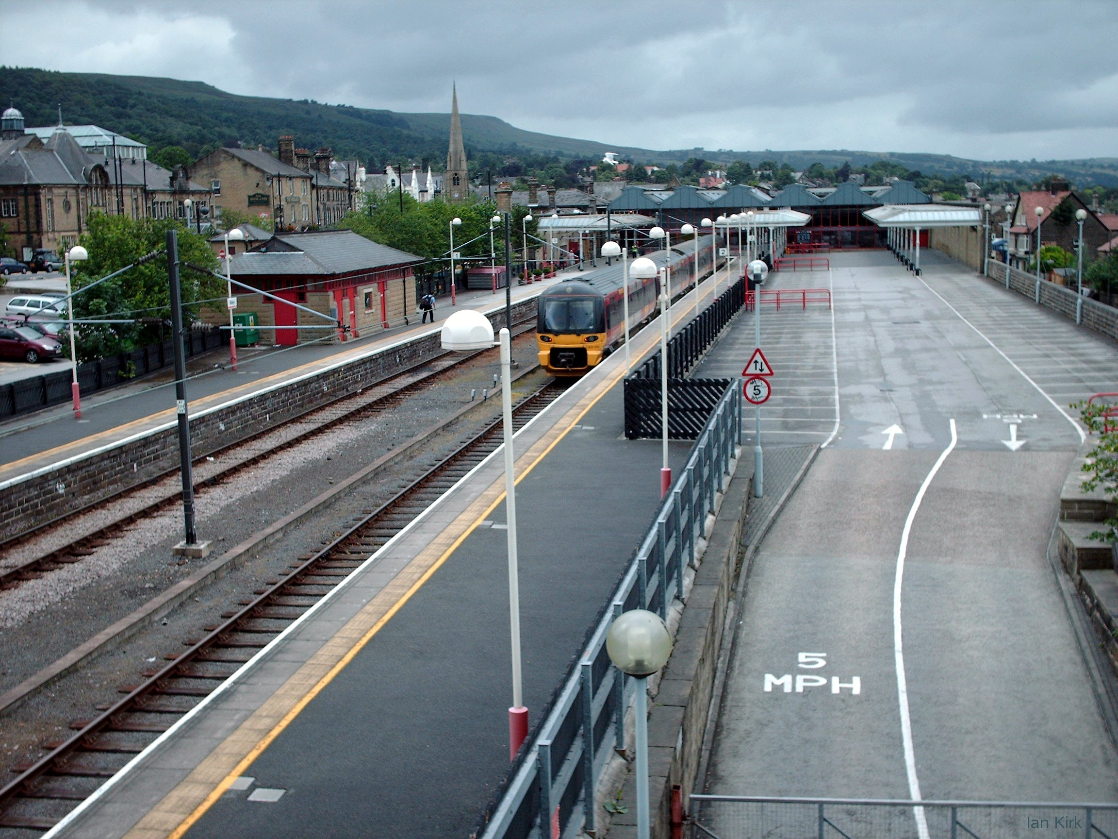 Ilkley railway station, West Yorkshire, England. View from the foot bridge. 333013 is at platform 2.